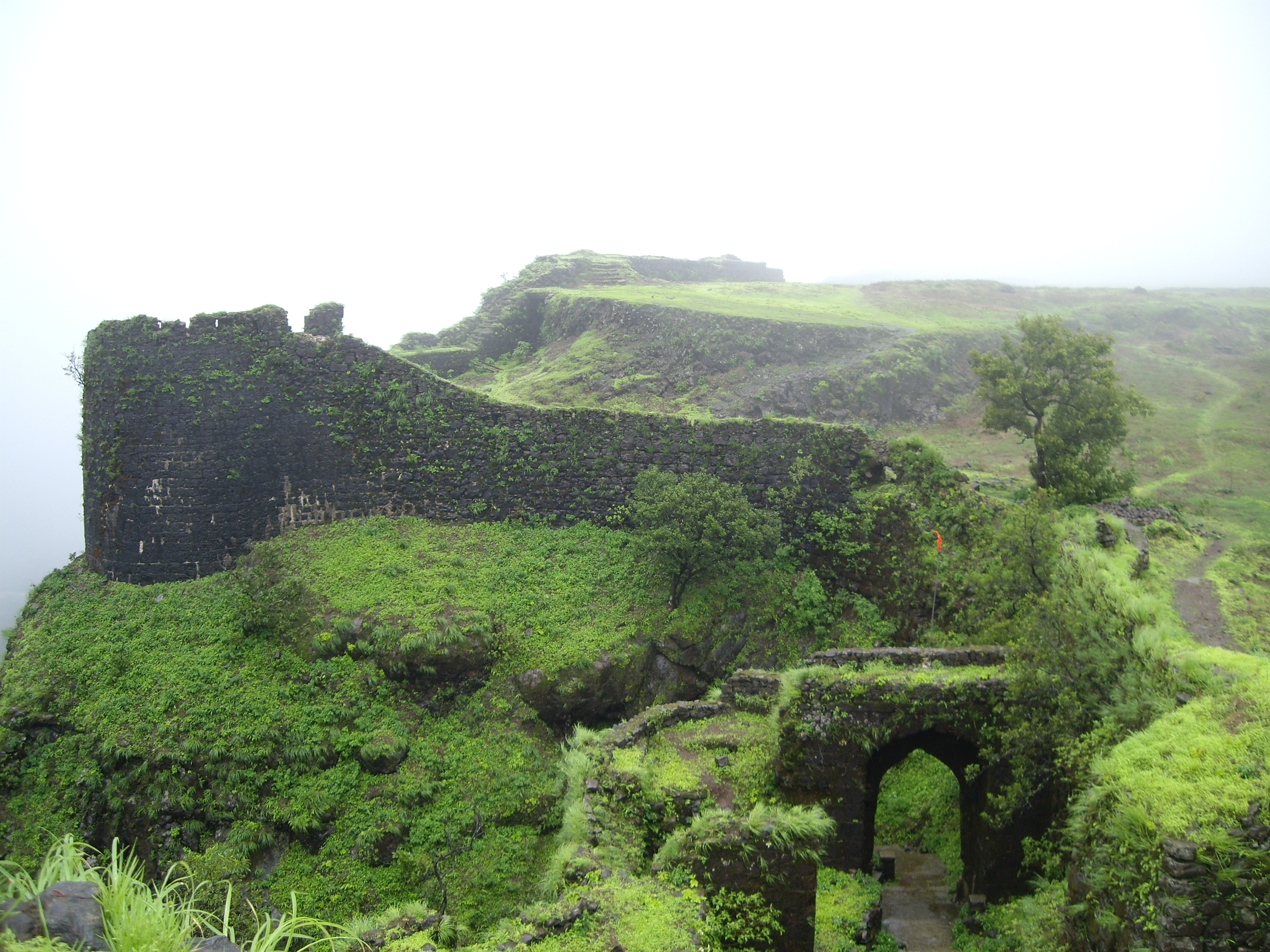 The strong gate-way to the beautiful place. Korigad, Maharashtra